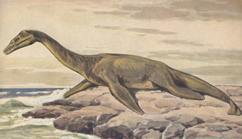 Plesiosaur on land. One of Heinrich Harder's murals for the Berlin Aquarium.